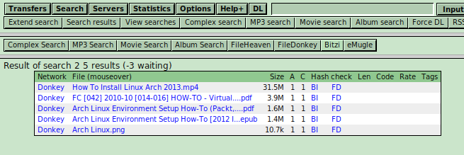 Screenshot of MLDonkey Web Interface